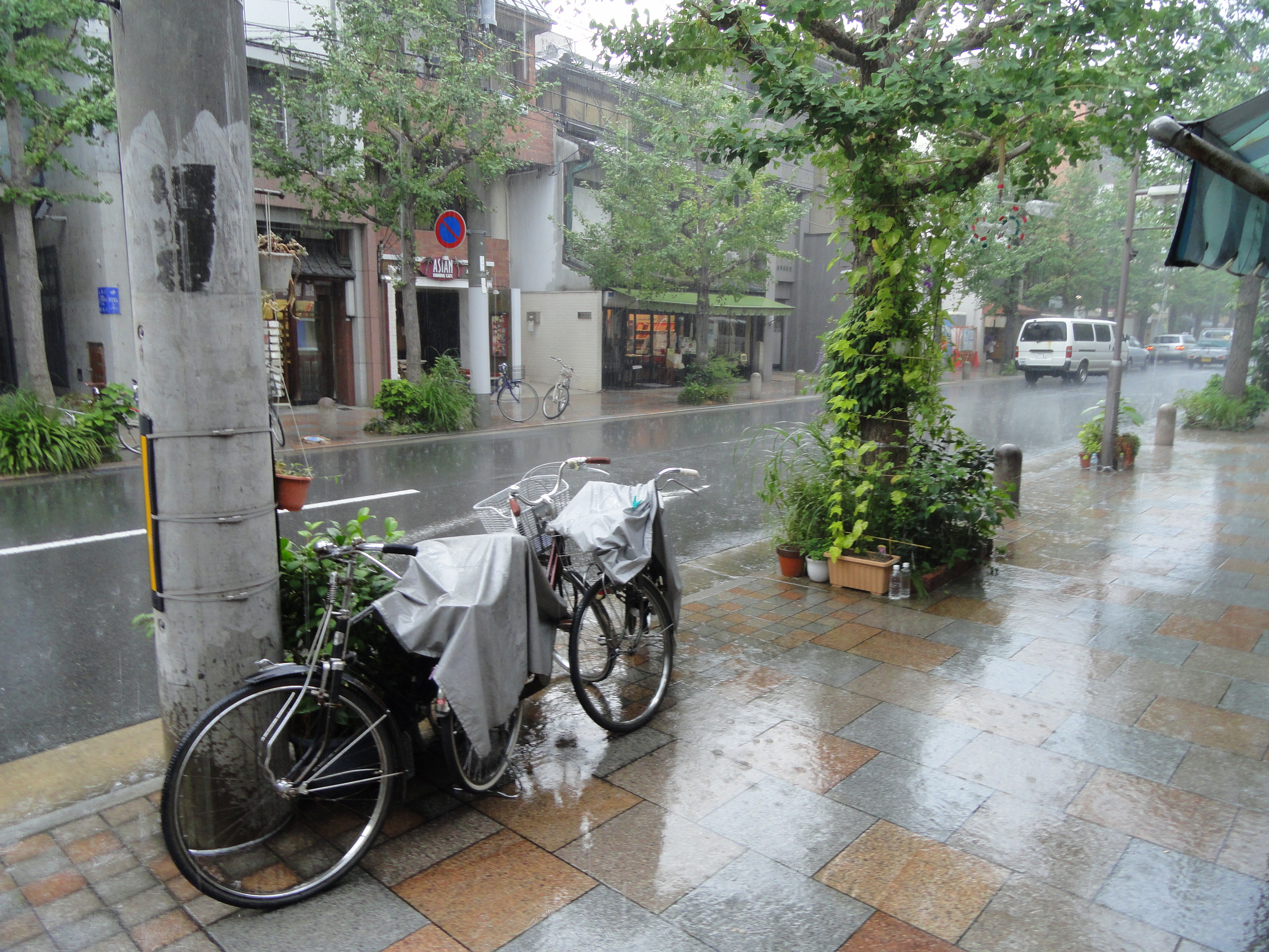 Teramachi-dori, Kyoto, Japan.